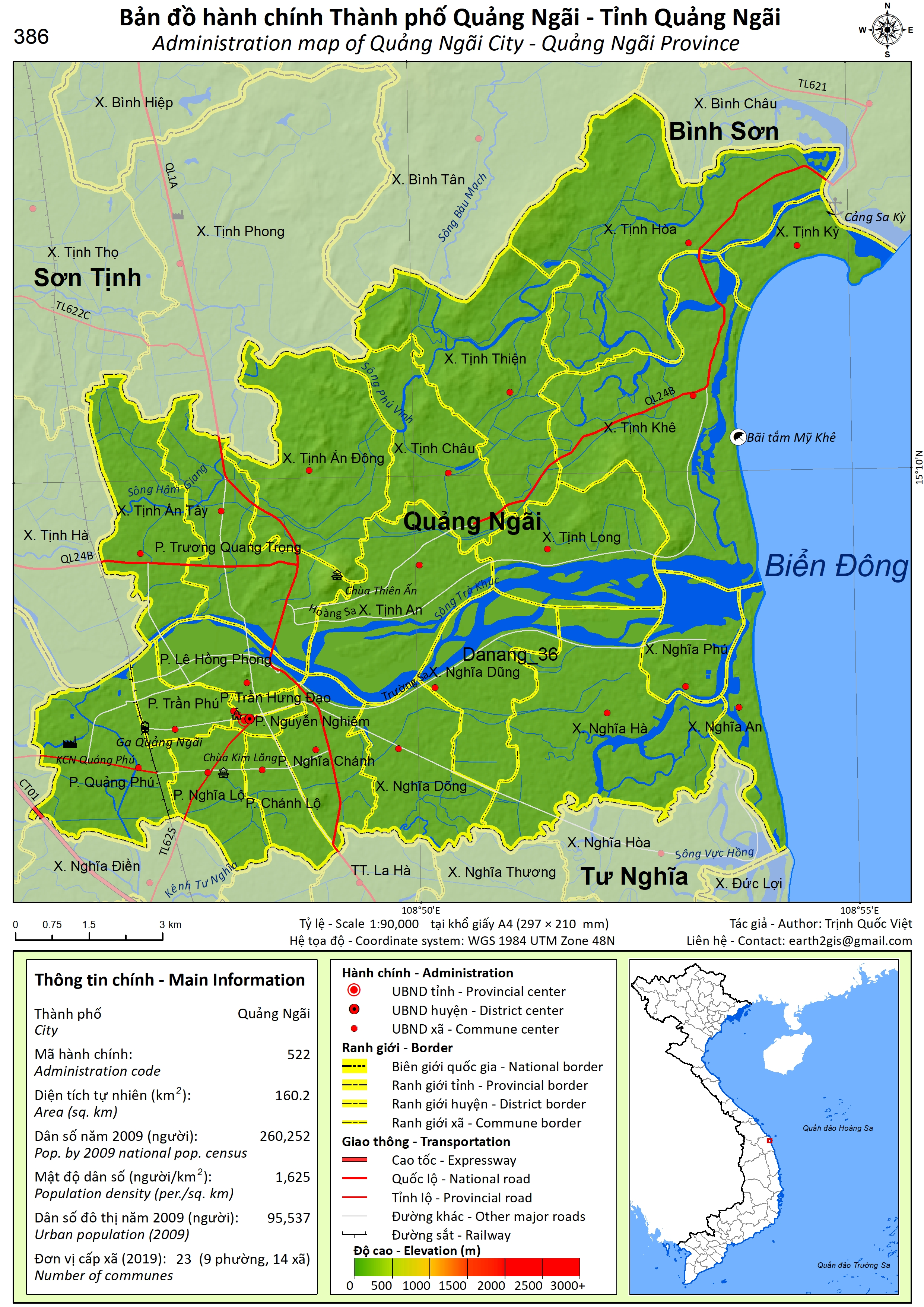 Administration map of Quang Ngai City, Quang Ngai Province